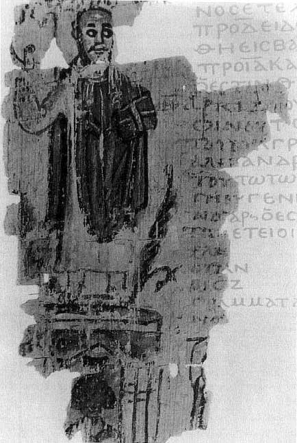 Theophilus and the Serapeum. Bishop Theophilus of Alexandria, Gospel book in hand, stands triumphantly atop the Serapeum in en:391. The cult image of Serapis, crowned with the modius, is visible within the temple at the bottom. Marginal illustration from a chronicle written in Alexandria in the early fifth century, thus providing a nearly contemporary portrait of Theophilus. P. Goleniscev 6 verso. (From A. Bauer and J. Strygowski, "Eine alexandrinische Weltchronik," Denkschriften der Kaiserlichen Akademie der Wissenschaften: Wien 51.2 [en:1906]: 1-204, fig. 6 verso)